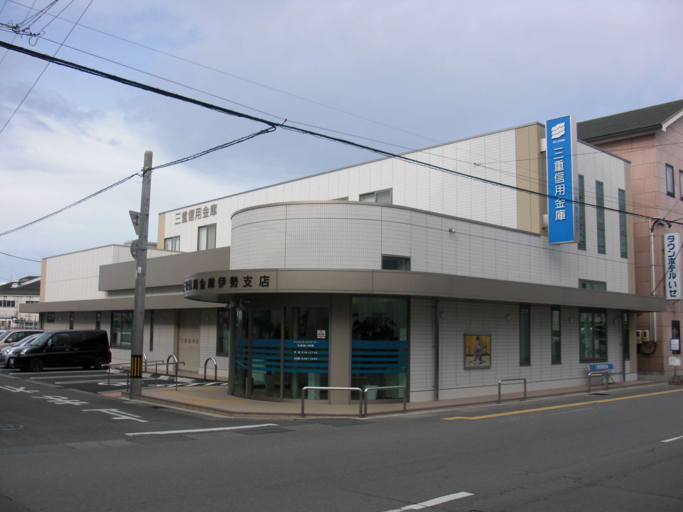 This is The Mie Shinkin Bank Ise branch, which is located in Ise, Mie, japan.